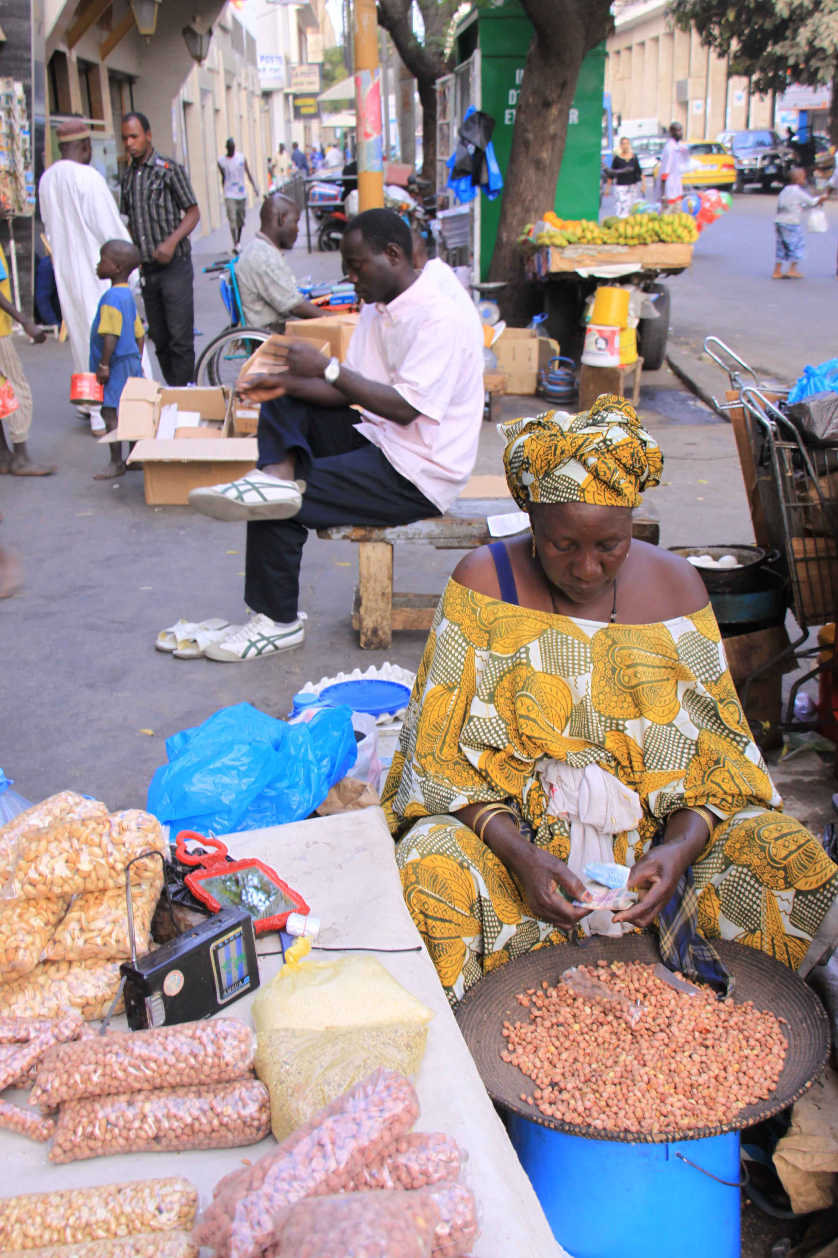 see filename. This file contributes to Share Your Knowledge.